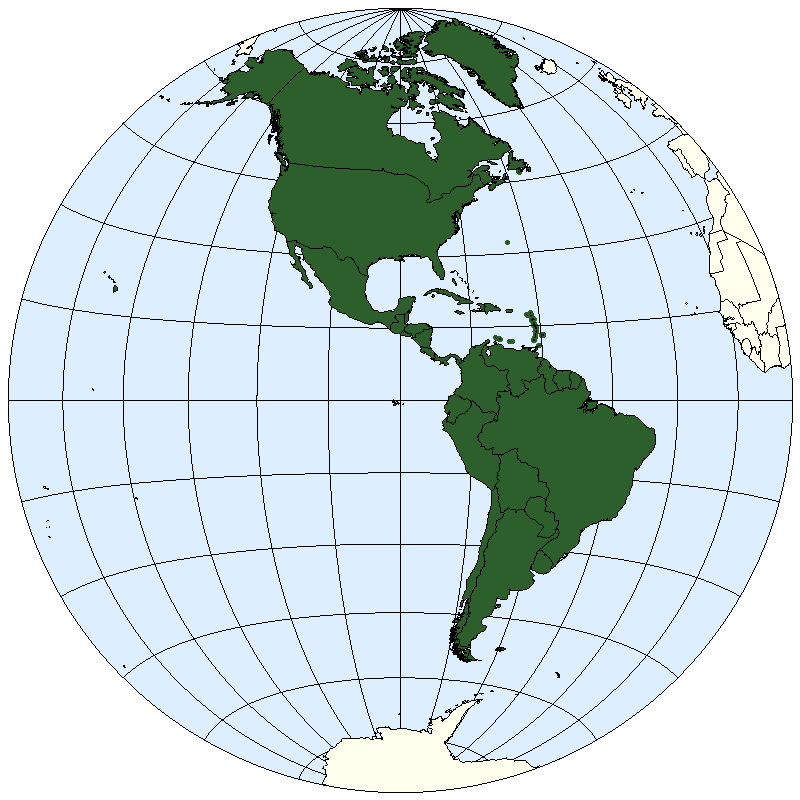 This map has been uploaded by Electionworld from to enable the Wikimedia Atlas of the World . Original uploader to was E Pluribus Anthony, known as E Pluribus Anthony at . Electionworld is not the creator of this map. Licensing information is below. Western hemisphere map: Americas Lambert azimuthal projection. Adapted by E Pluribus Anthony from original image created by Marvin01 (Sean Baker) (original data source)